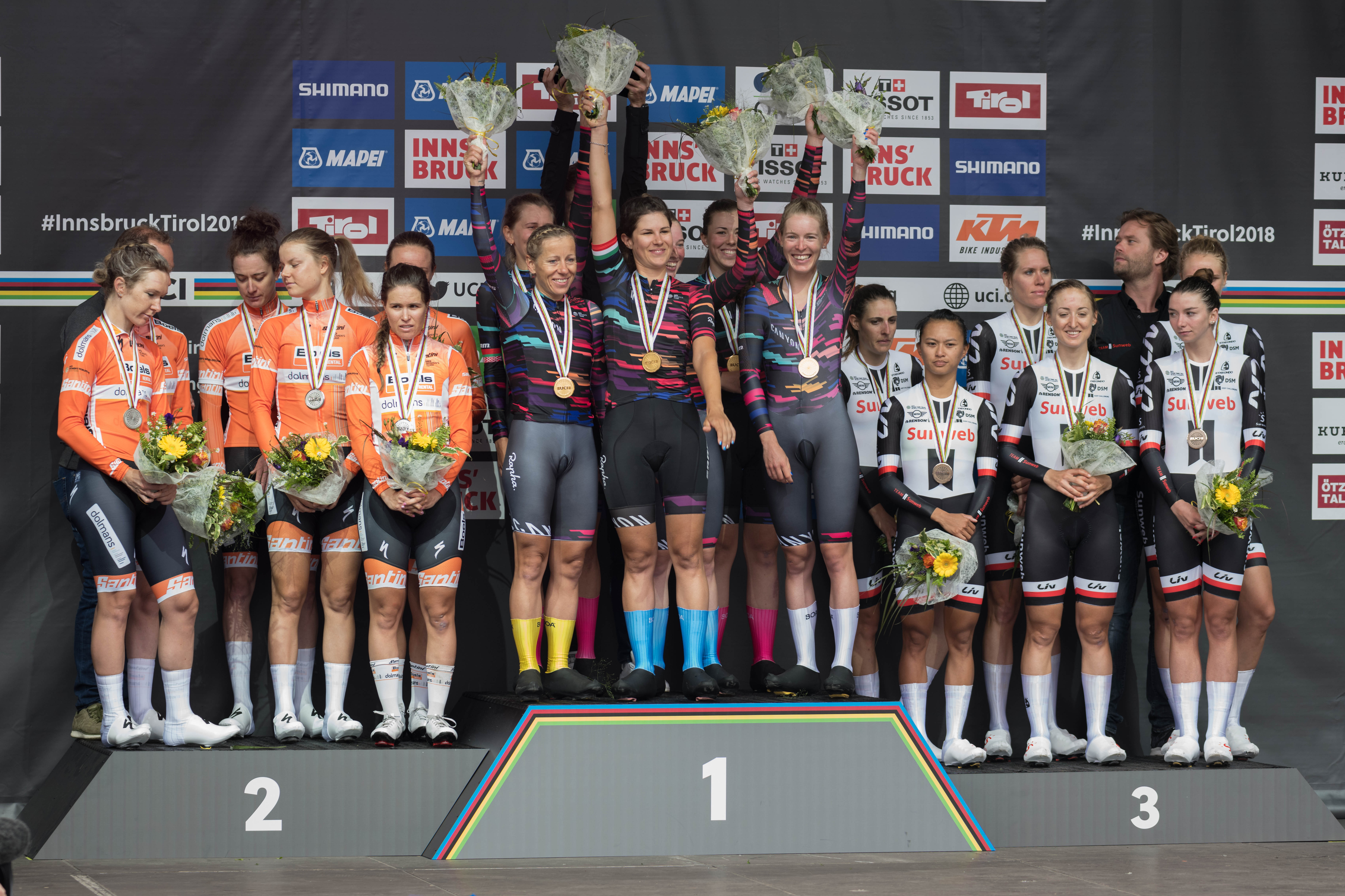 2018 UCI Road World Championships Innsbruck/Tirol Women's Team Time Trial. Picture shows: Award Ceremony Women's Team Time Trial